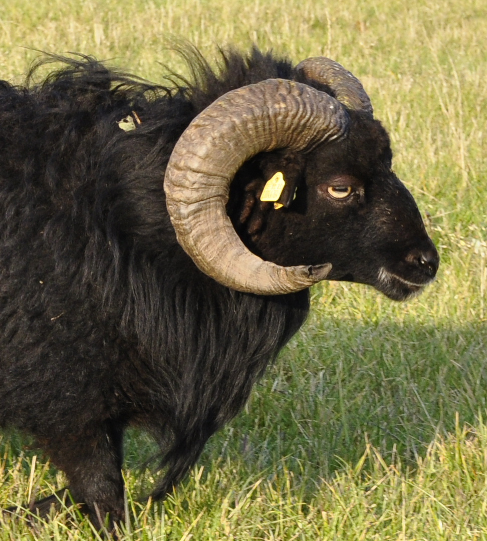 Ouessant sheep ram